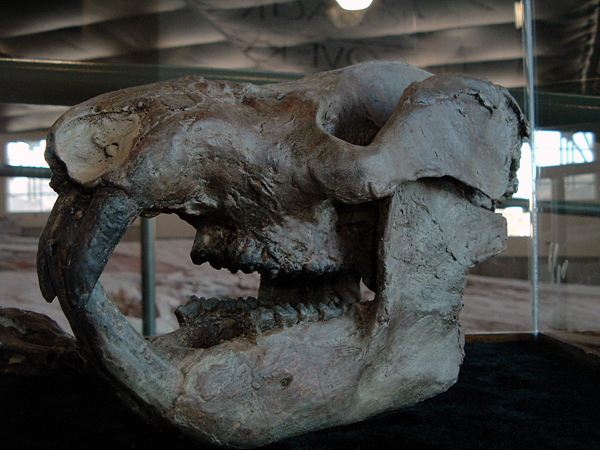 A cast of the skull of the tritylodont reptile Kayentatherium, on display at the St. George Dinosaur Discovery Site.